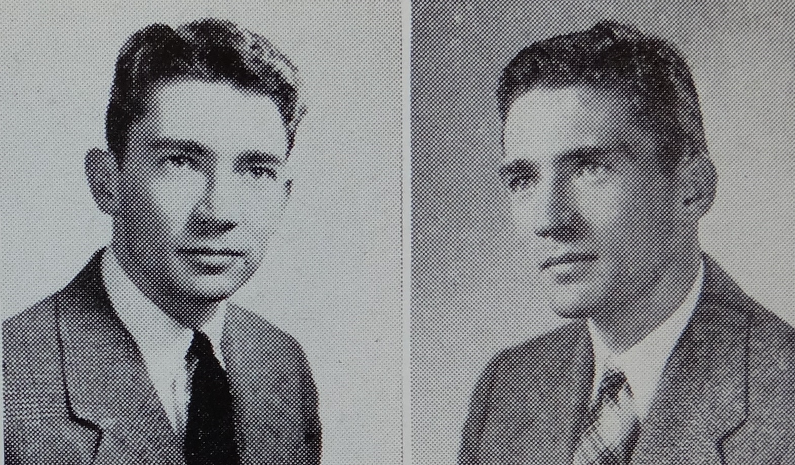 Photograph of H. Ross Hume and Robert H. Hume, track athletes of the University of Michigan